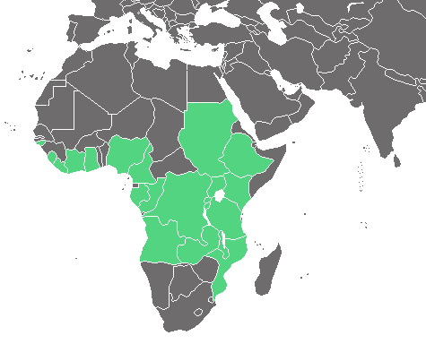 range map of Bersama abyssinica, showing countries of occurrence (not specific regions of occurence).